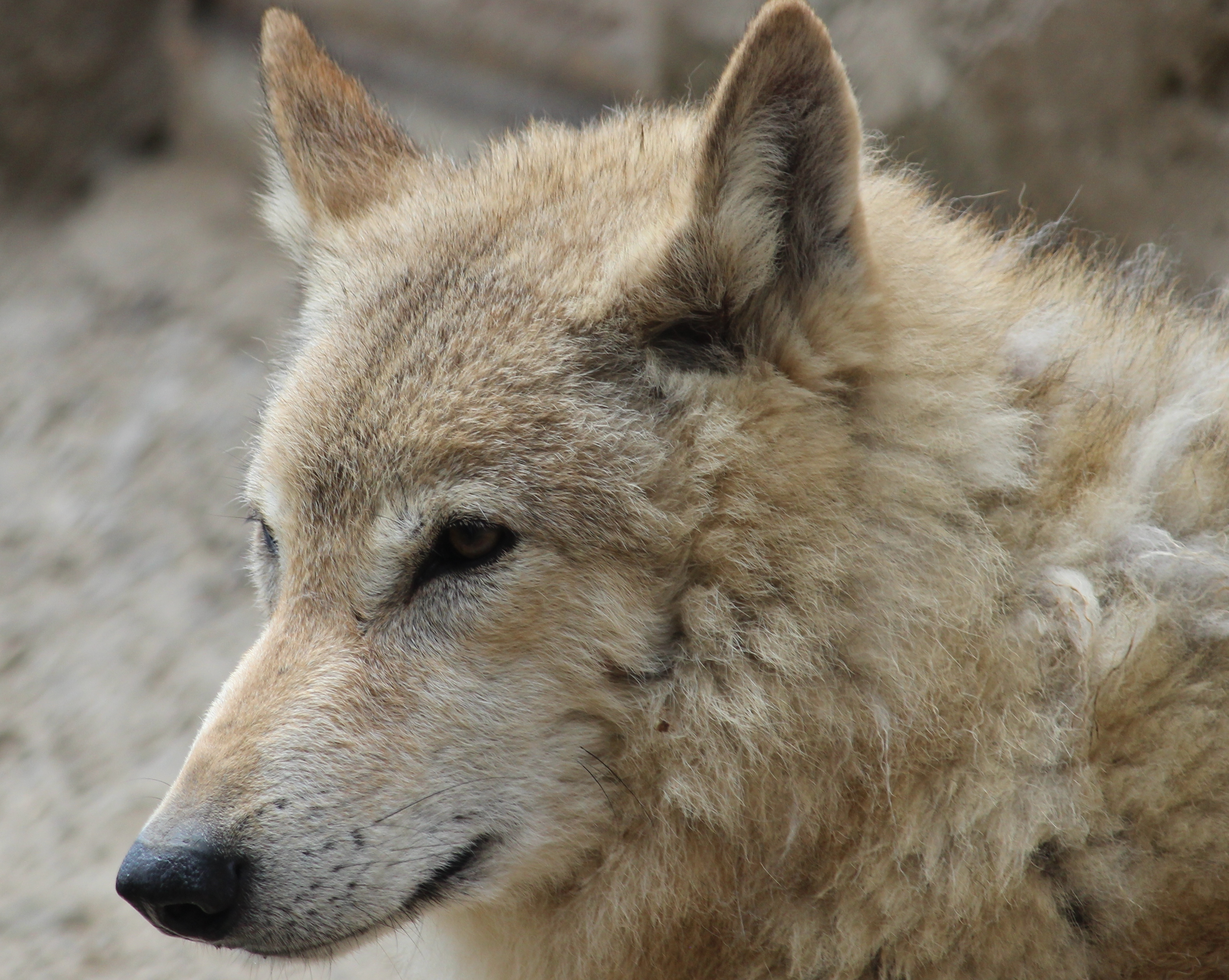 at the Padmaja Naidu Himalayan Zoological Park